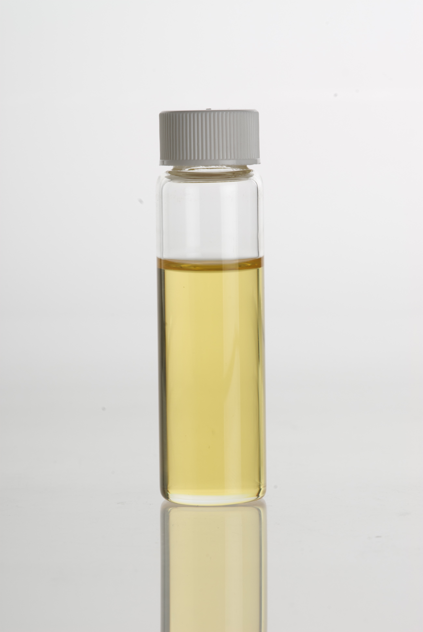 Mountain Savory (Satureja montana) Essential Oil in clear glass vial